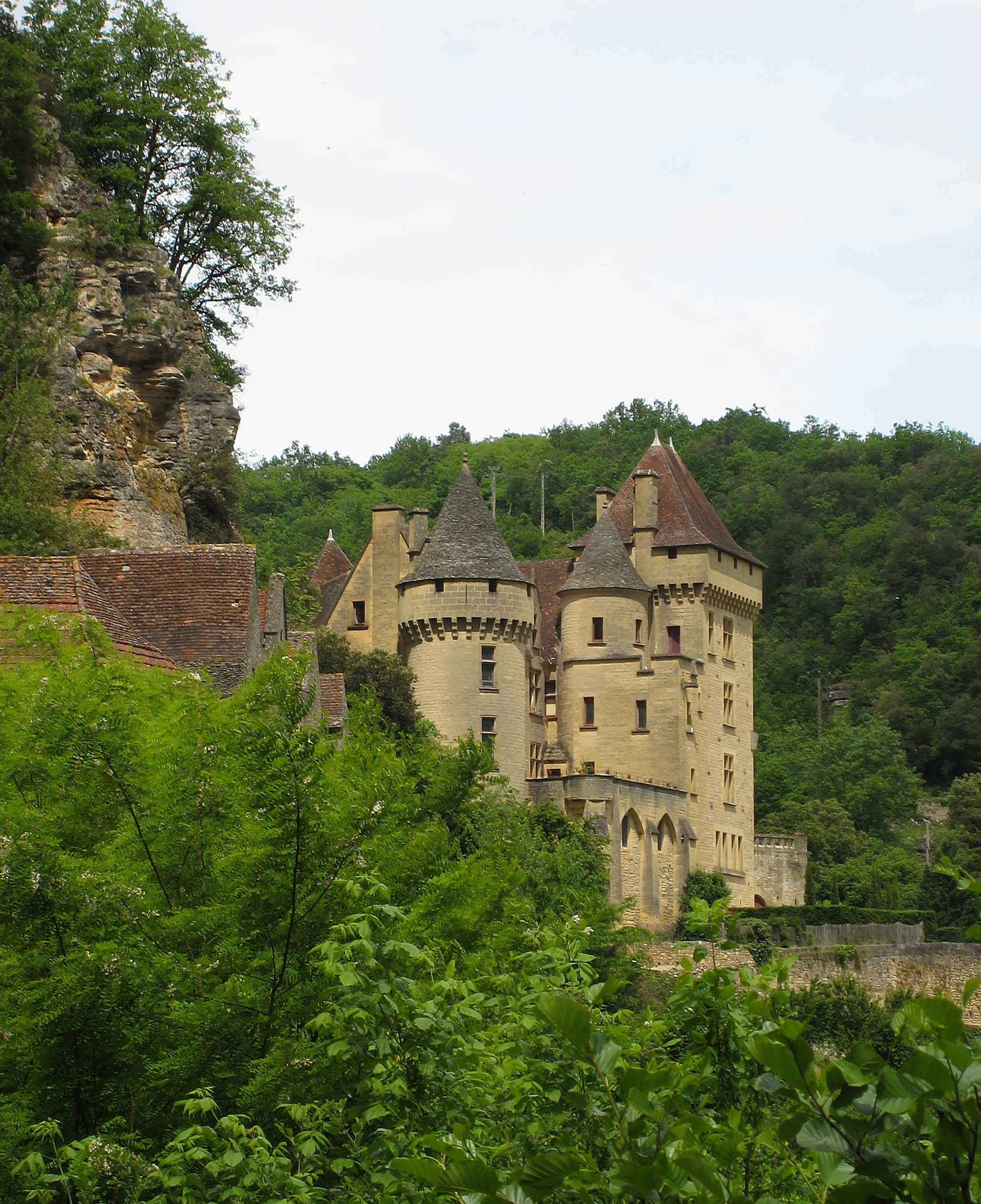 Château de Malartrie at the river Dordogne at the end of the village of La Roque-Gageac, Département Dordogne/France.